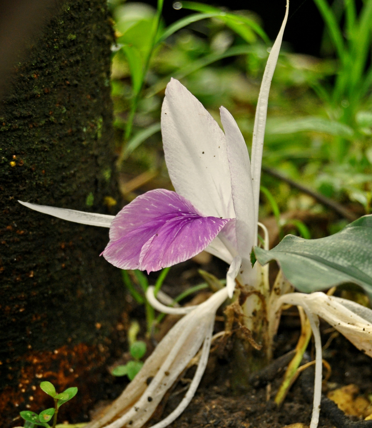 Round-rooted Galangal Kaempferia rotunda, flower close-up. Bogor, West Java.